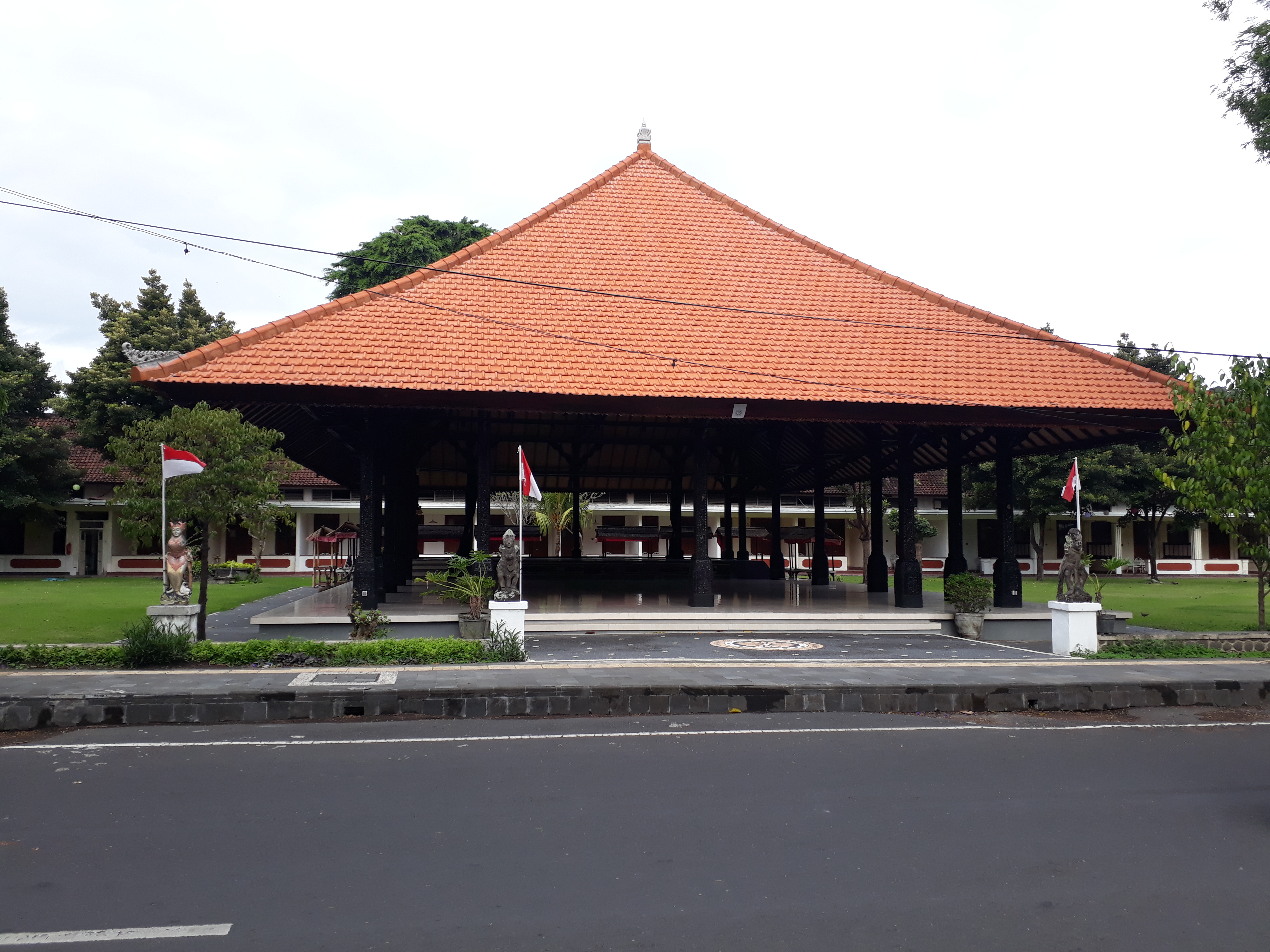 The meeting hall (pendopo) of the Inna Bali Heritage Hotel (formerly Bali Hotel), venue of the 1946 Denpasar Conference